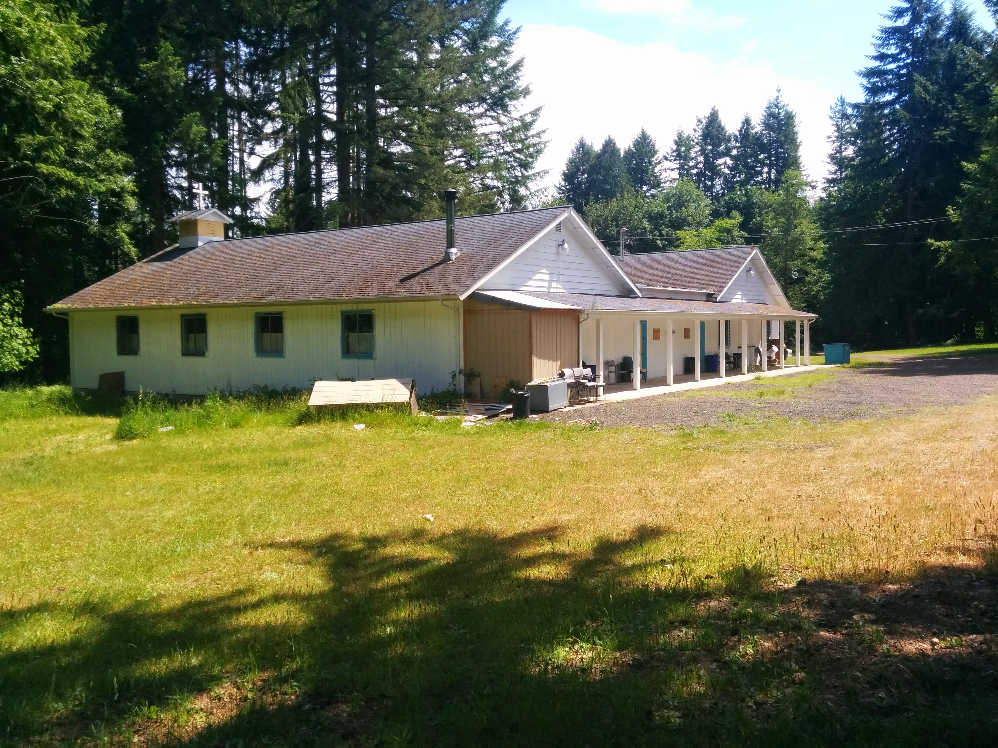 The second Indian Shaker Church at Mud Bay. Built 1910 on the same property as the 1890s church which was the first Indian Shaker Church structure anywhere.